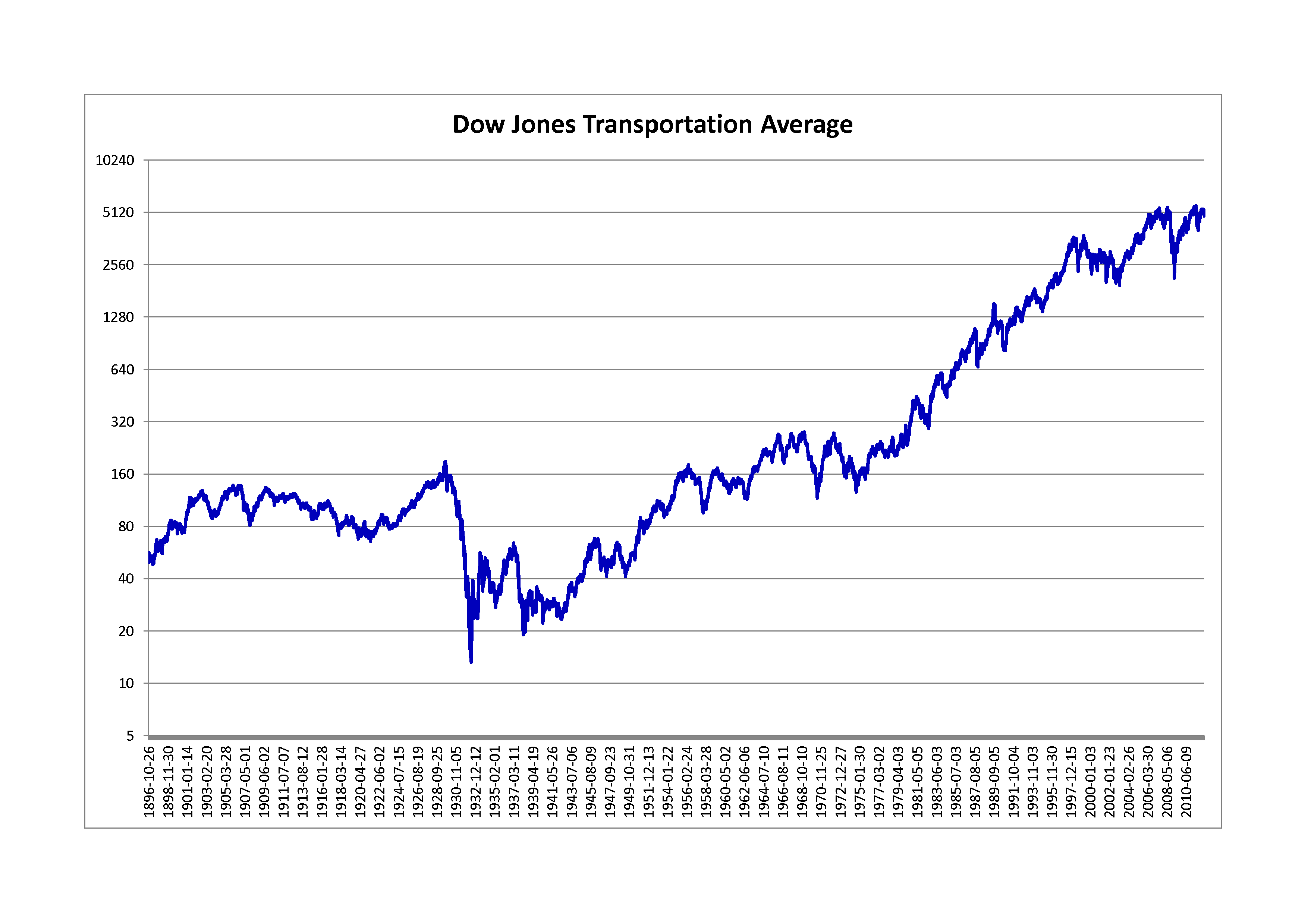 Dow Jones Transportation Average from October 1896 to May 2012 (daily closings).